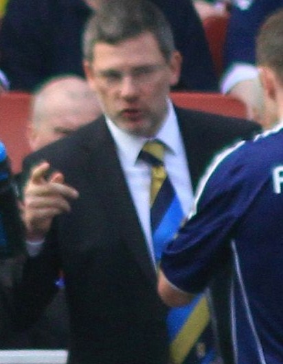 Scotland